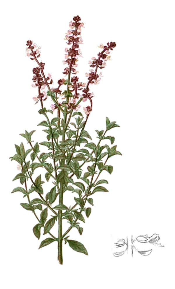 Plate from book